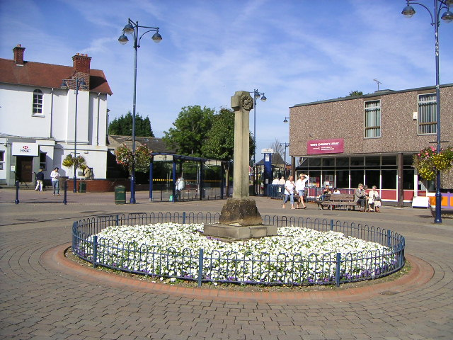 Wath upon-Dearne Town Centre. Wath Market Cross is in the foreground. In 1312 King Edward II granted permission for an annual market and fair. In 1989 the cross was given a new shaft.